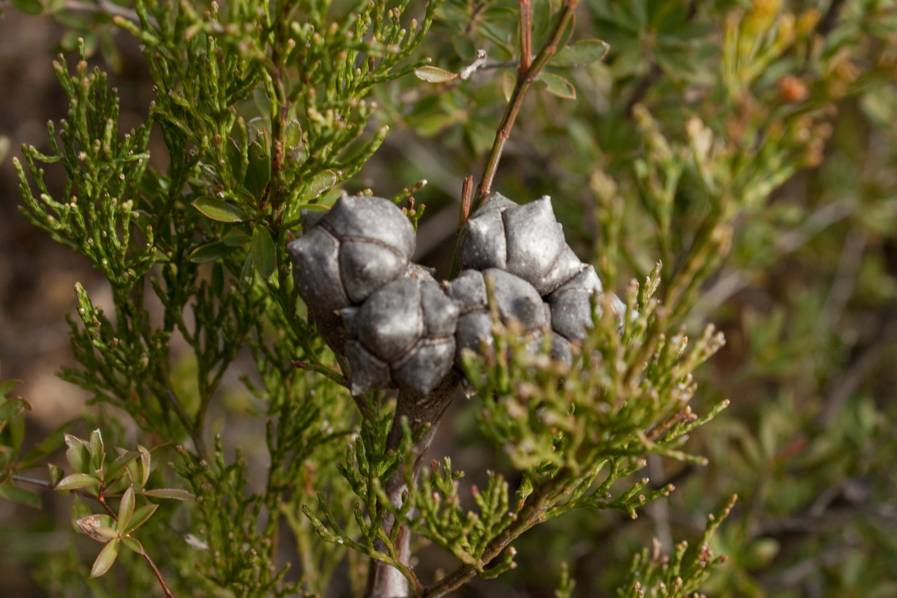 Callitris rhomboidea (Oyster Bay Pine), Grampians National Park, Victoria Australia